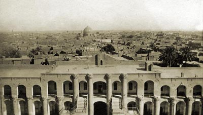 Baghdad Serai view in 1918